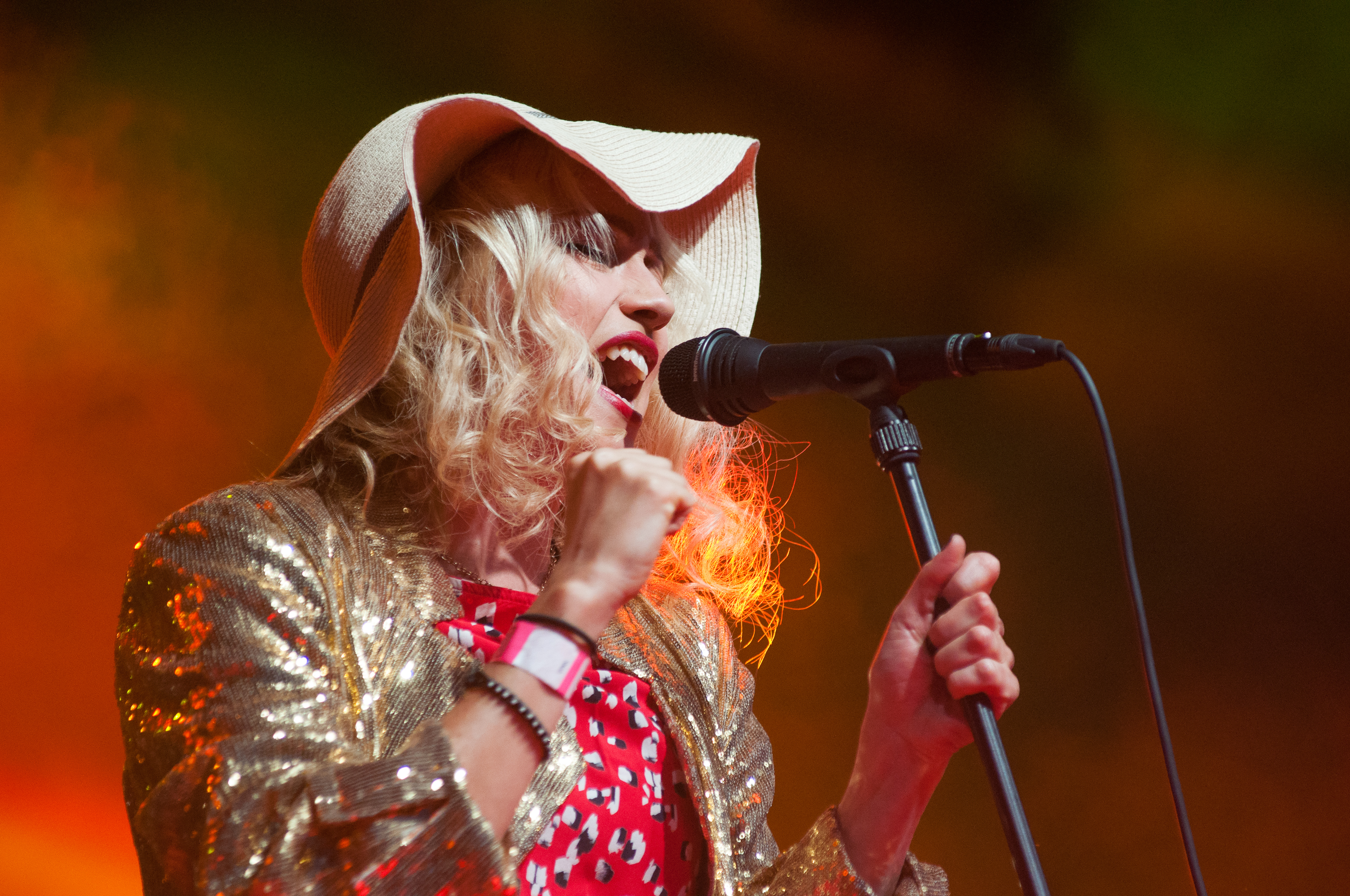 Finnish vocalist Chisu performing at the 2012 Ilosaarirock festival in Joensuu, Finland.